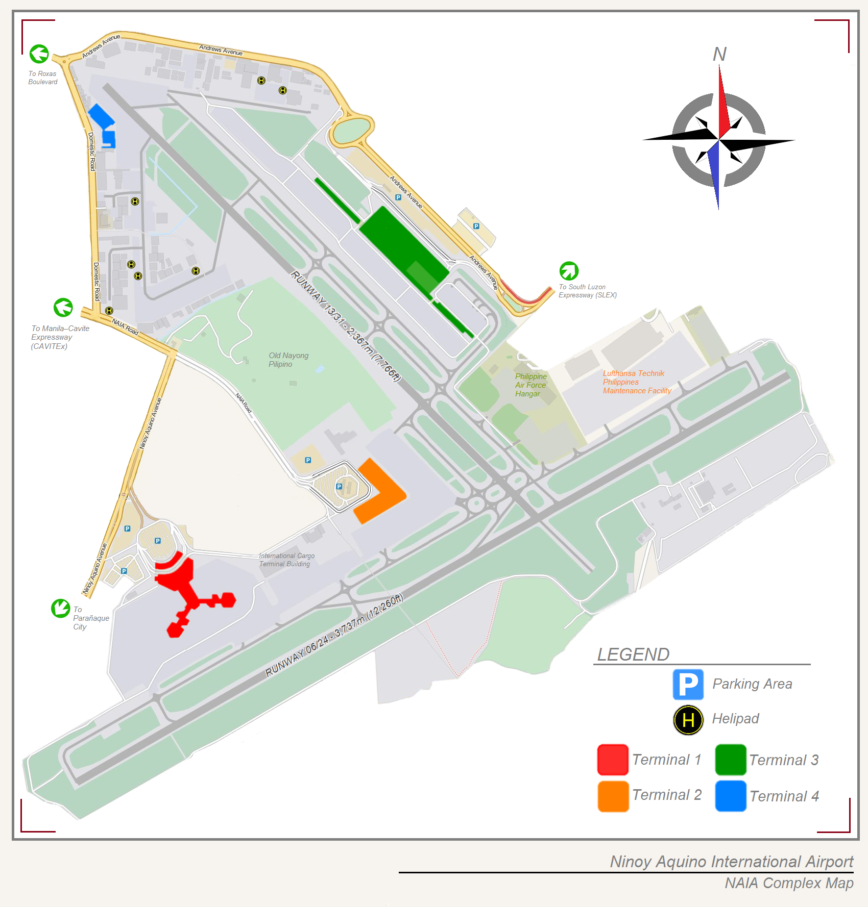 This image is a map of the terminals and other structures in the Ninoy Aquino International Airport Complex.